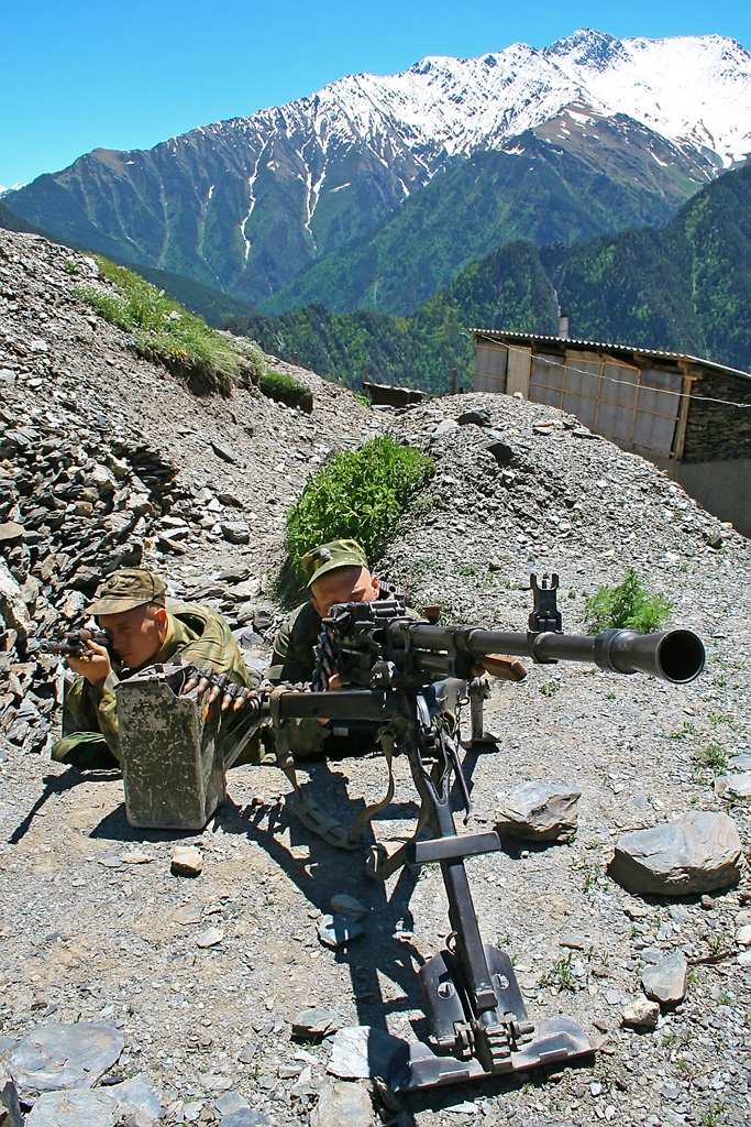 “Machine-gunners in ambush”. A border guard outpost near Khushet, a Dagestani village in the North Caucasus.